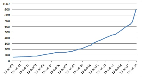 Graph to show the amount of stores Poundland has operated over a 9 year period (2000-2009) Information from graph compiled from the following sources